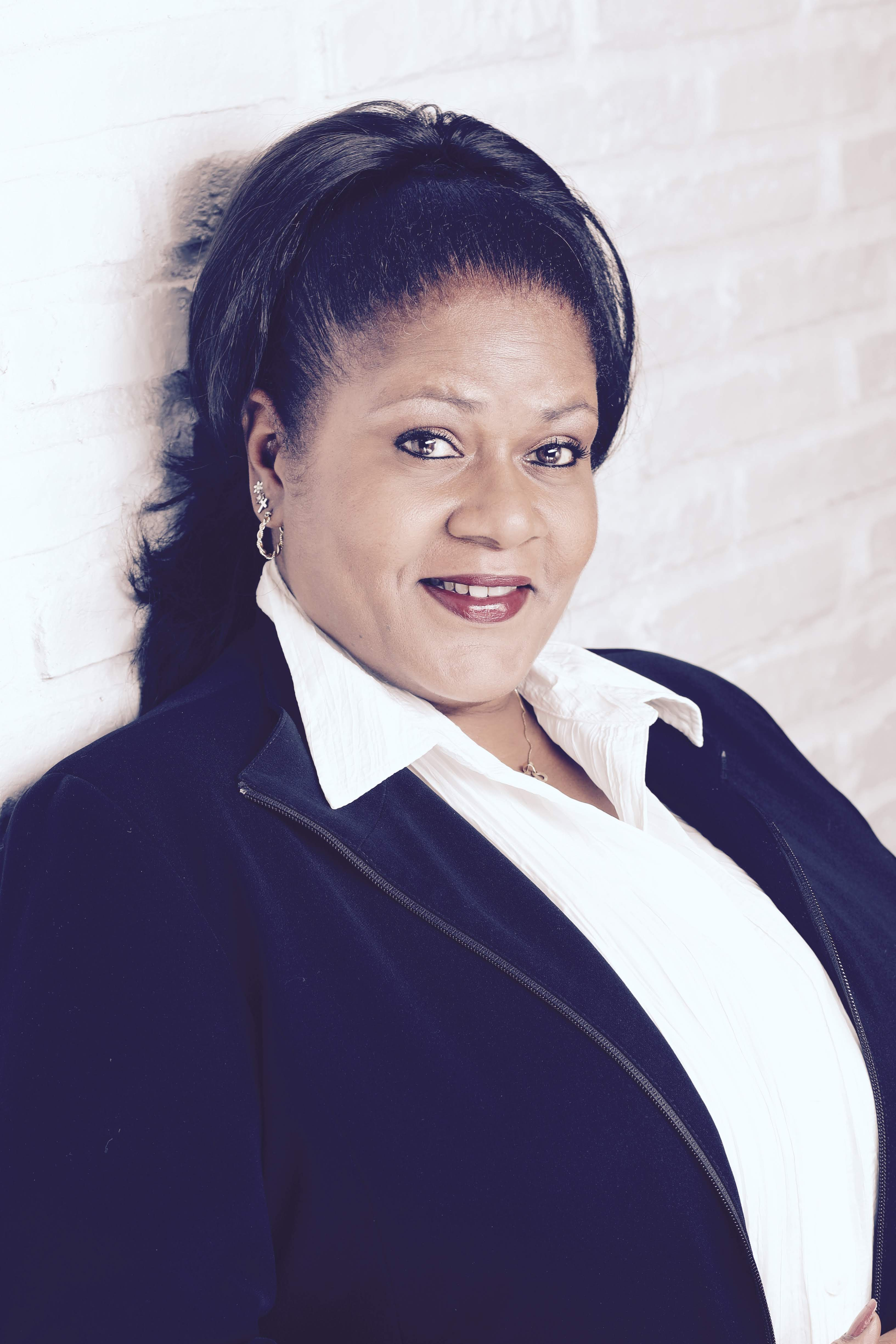 Opera singer Tichina Vaughn